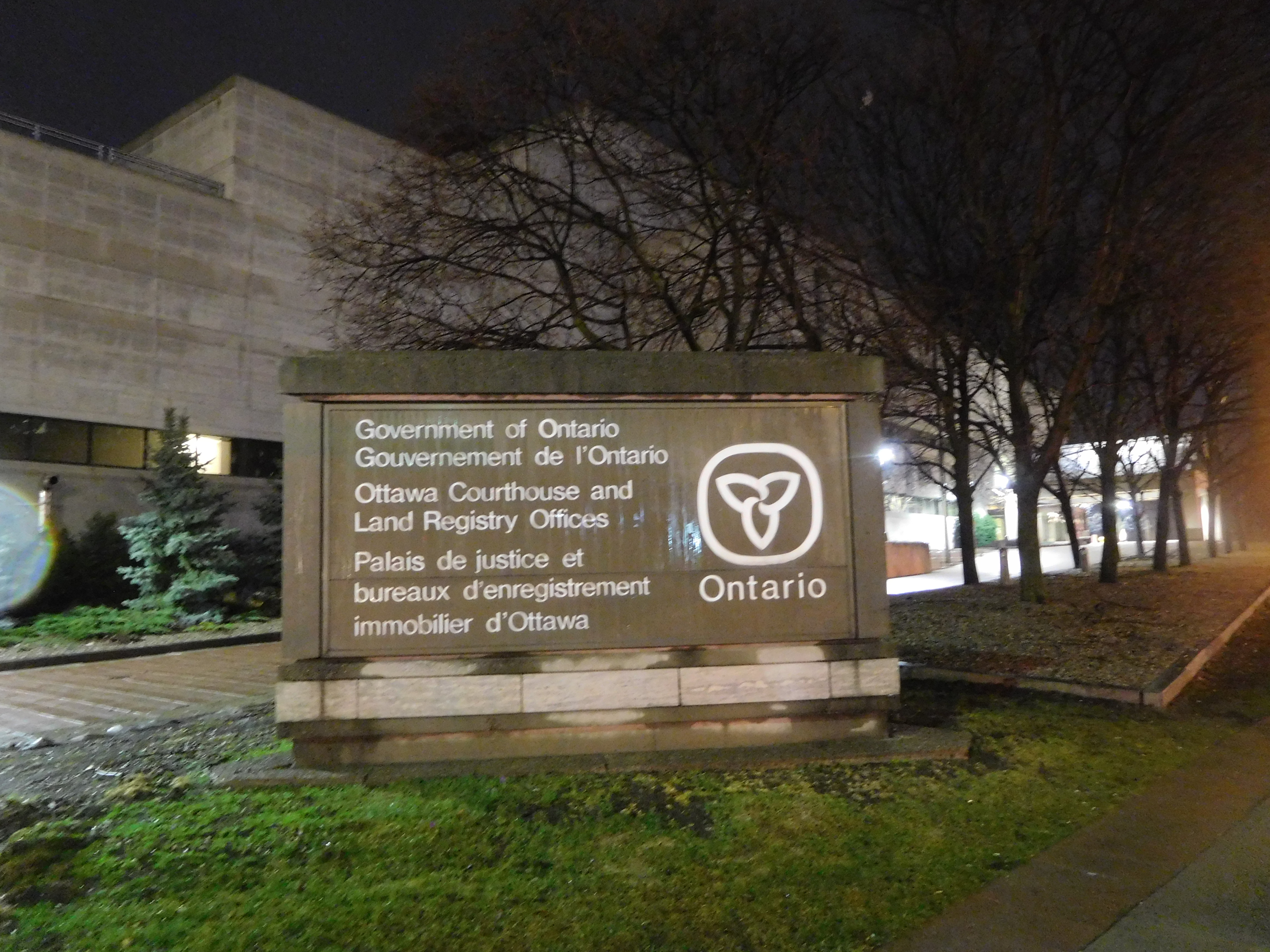 Ottawa Courthouse, 161 Elgin Street, Ottawa